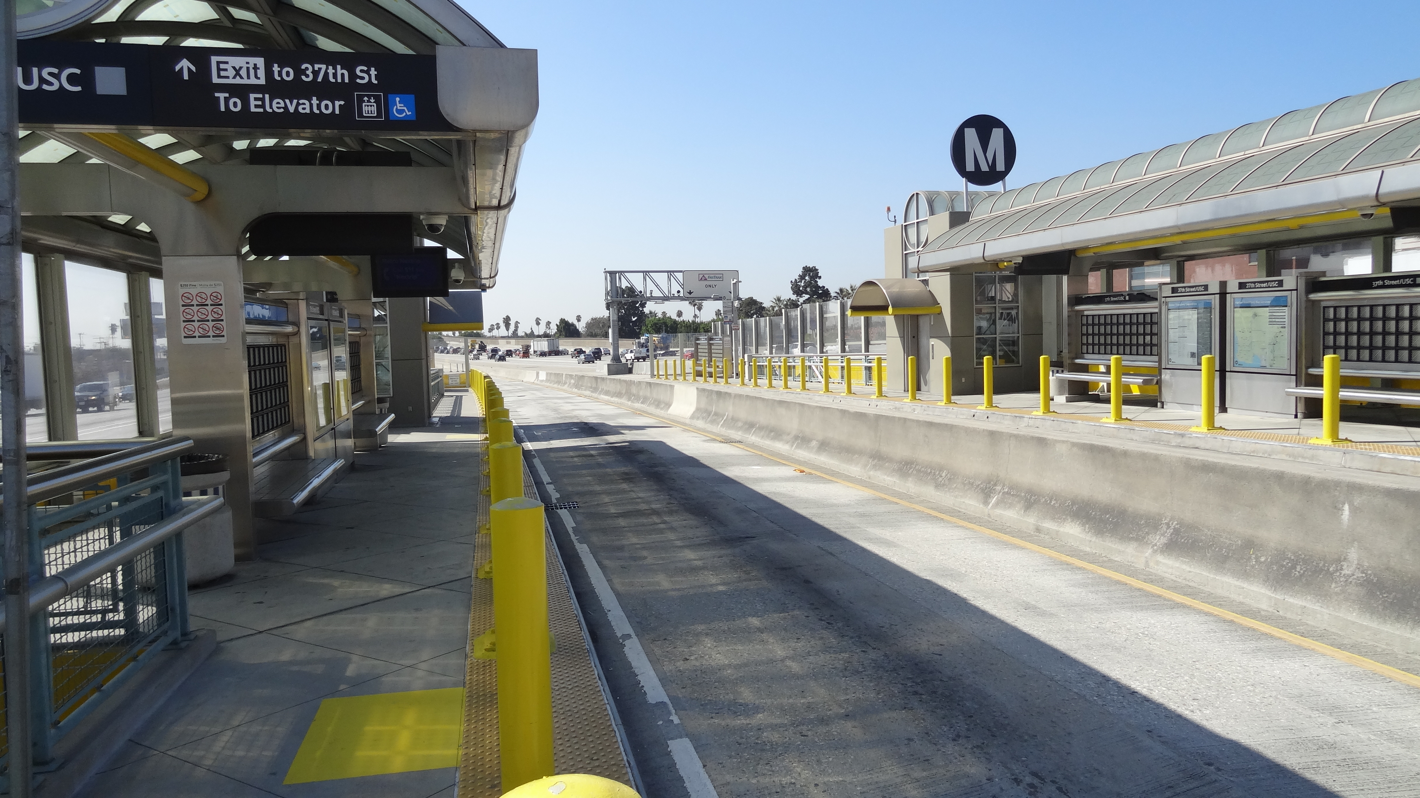 37th Street/USC Station with station signage improvements.